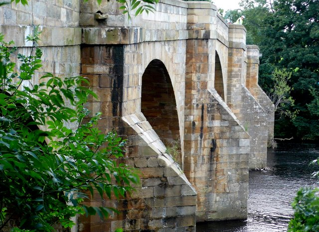 Chollerford Bridge View of the bridge from the end on the south side of the North Tyne